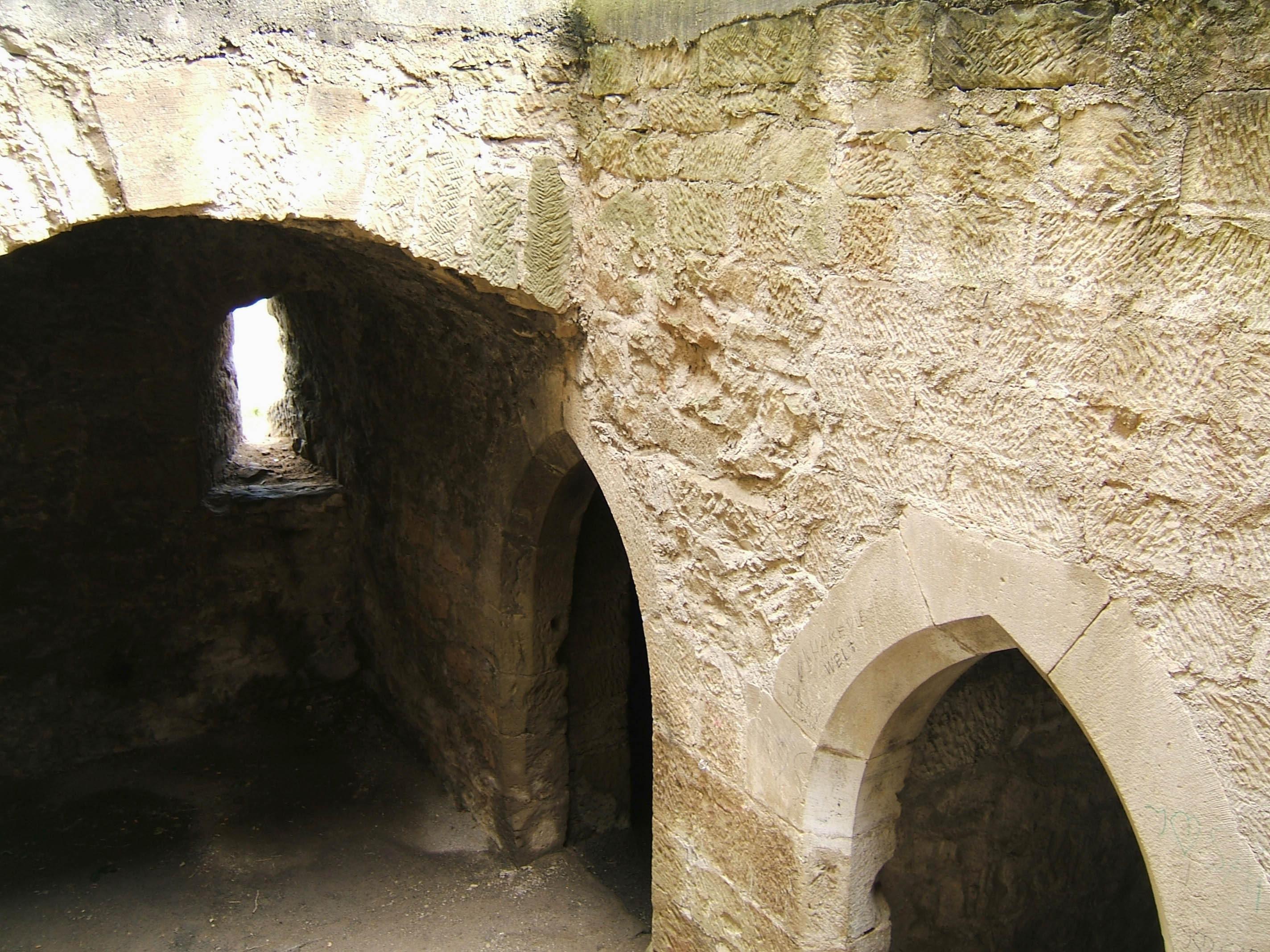 Y-Burg, a ruin in Germany